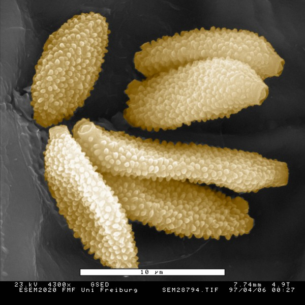 Orchid Pollen Picture made with an ElectroScan 2020 ESEM